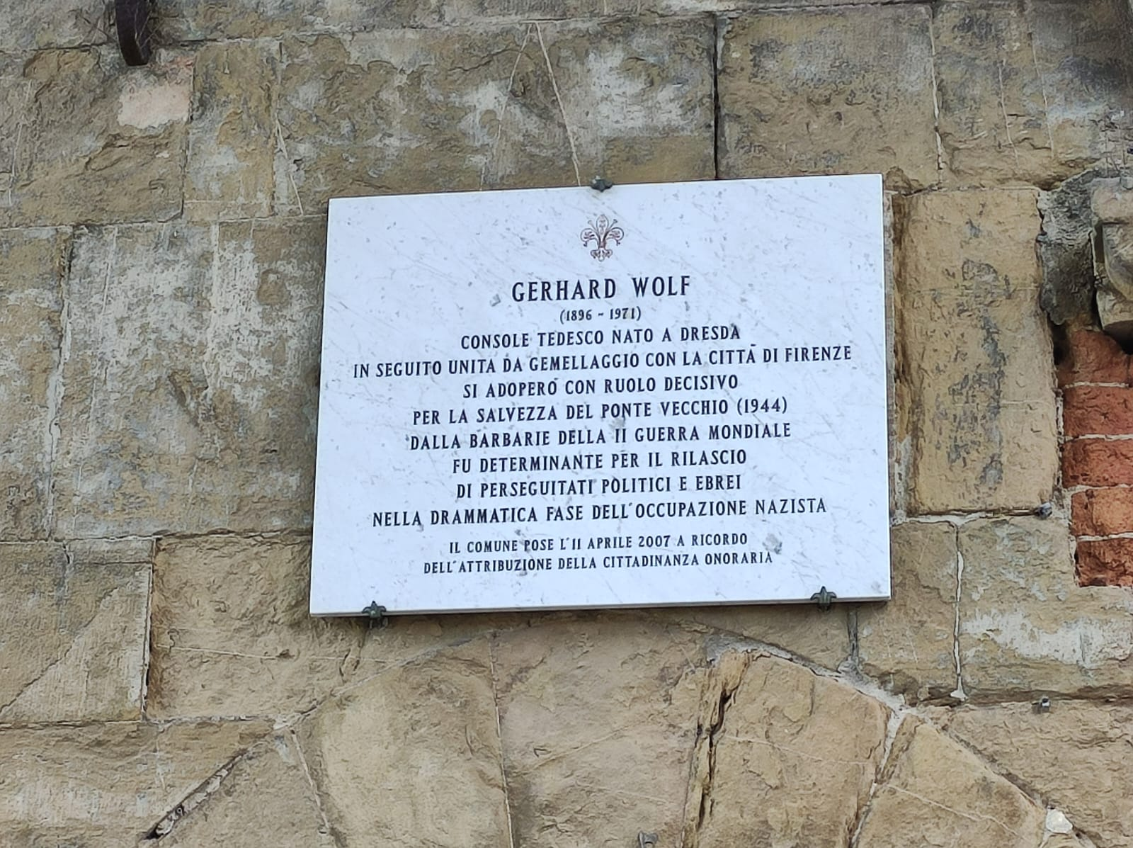 Florence, Italy: Inscription at Ponte Veccio in Firenze; dedicated to Gerhard Wolf